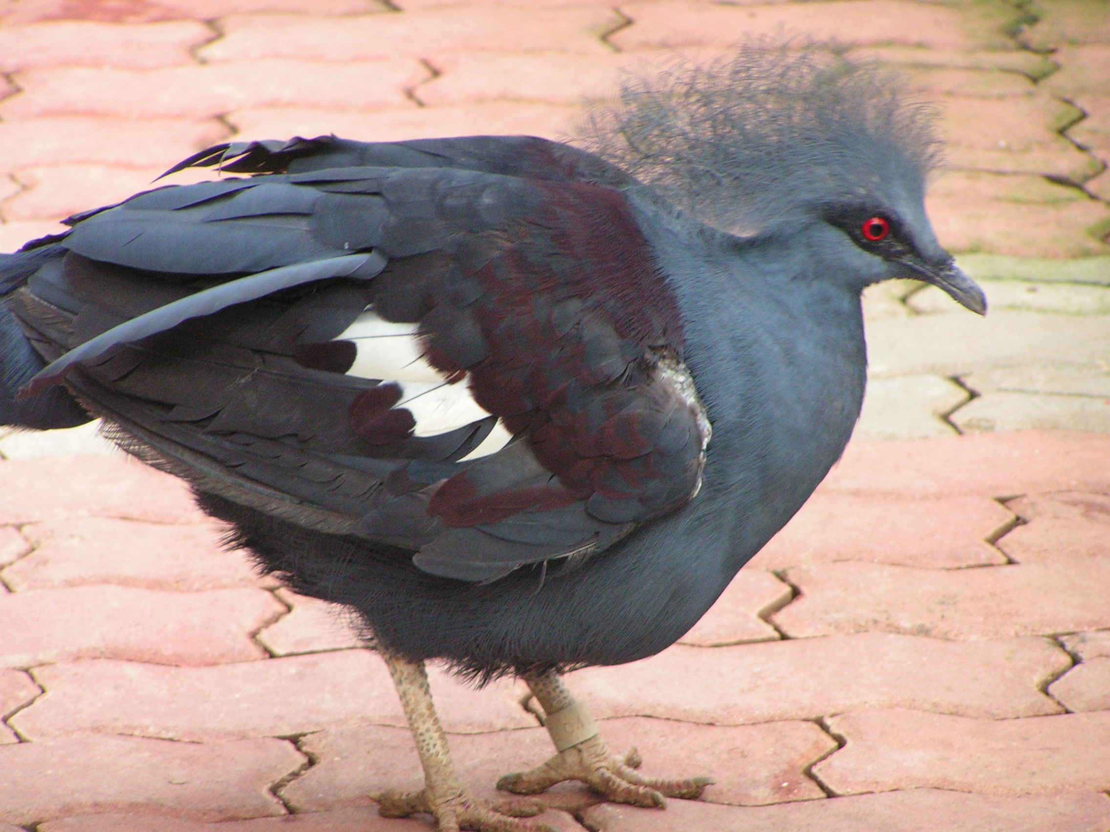 Western or Common Crowned-Pigeon (Goura cristata) at Jugiong Bird Park, Singapore. Native of New Guinea and Indonesia. Photograph taken on 19 December 2004